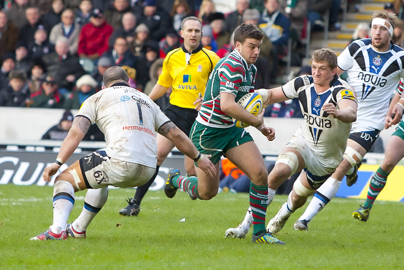 Leicester Tigers' fly-half George Ford skips through the bath defence. Leicester Tigers vs Bath, Aviva Premiership, Welford Road, Saturday 1st December 2012